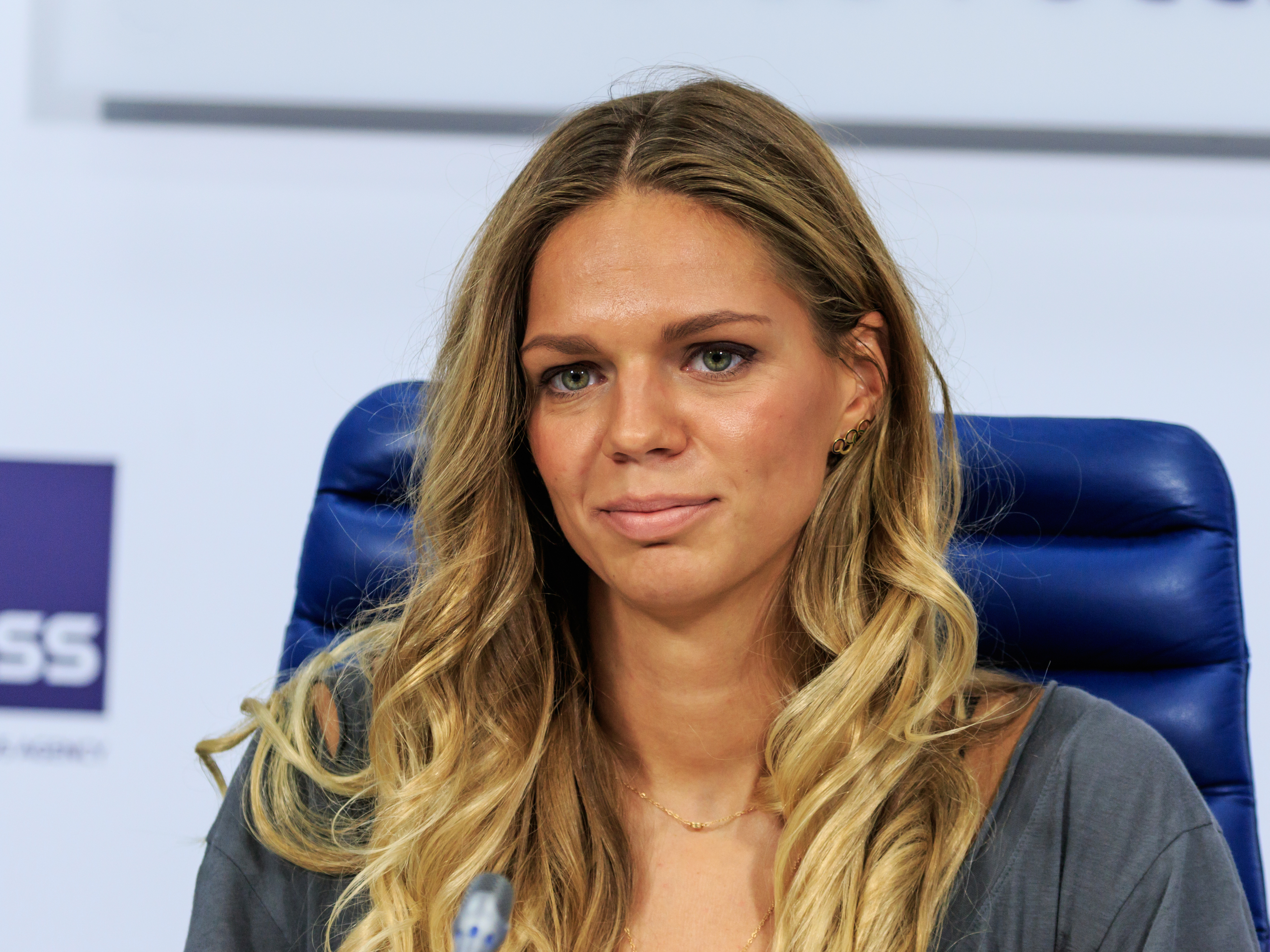 Yuliya Yefimova (b. 1992) is a swimmer from Russia